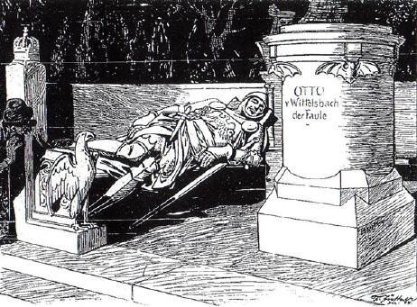 Caricature by Franz Jüttner, printed in the humorous weekly Lustige Blätter in 1899, of the monument in the former Siegesallee in Berlin commemorating Margrave of Brandenburg Otto V (1346-1379), known as "Otto der Faule", German for "Otto the Lazy". The caricature is representative of contemporary criticism of the entire boulevard spectacle with its monumental sculptures. The sculpture of Otto IV was unveiled on 22 March 1899 and created by the sculptor Adolf Brütt. At present the statues are stored in the Lapidarium in Berlin-Kreuzberg.